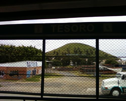 Sign at Tesoro station of the Guadalajara light rail system